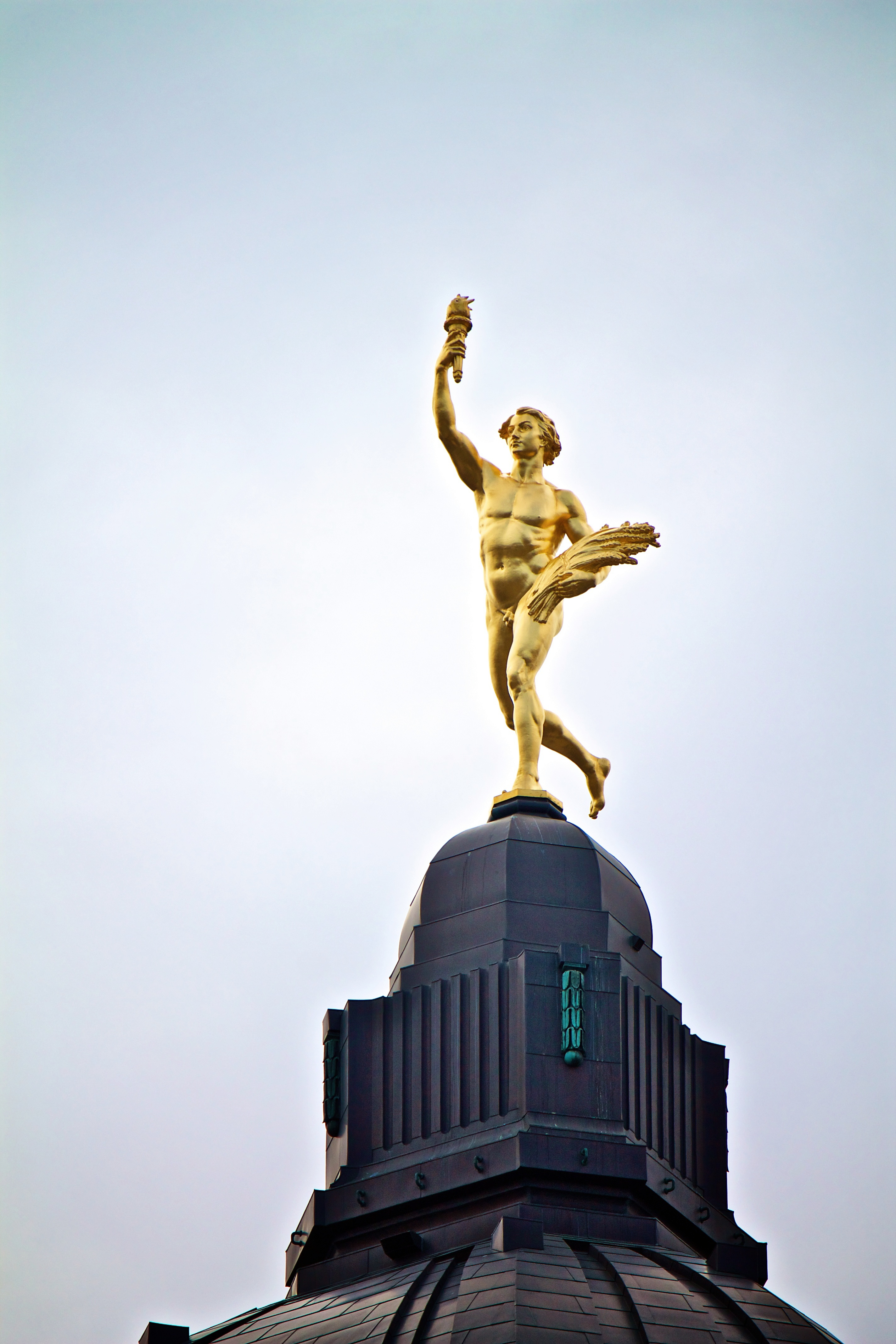 On November 1st, 1919, the Winnipeg statue, officially named "Eternal Youth", was set atop the dome of the Manitoba Legislative Building. The Golden Boy statue stands 14 feet to the top of his head and another 3.2 feet to the tip of the torch which was fitted with an electric light in December 1966.